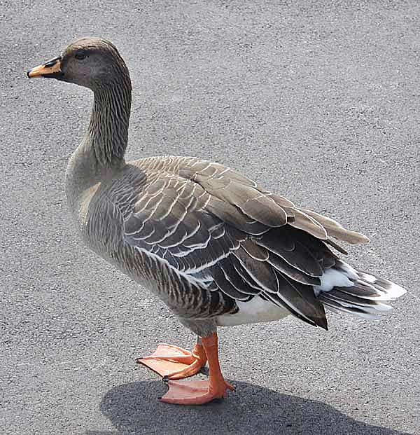 Bean Goose (Anser fabalis) at Slimbridge Wildfowl and Wetlands Centre, Gloucestershire, England.